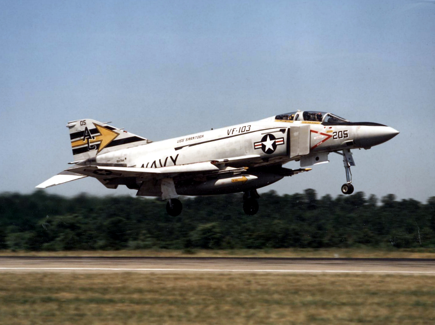 A U.S. Navy McDonnell F-4J-34-MC Phantom II (BuNo 155764) from Fighter Squadron VF-103 "Sluggers" taking off at Naval Air Station Oceana, Virginia (USA). VF-103 was assigned to Carrier Air Wing 3 (CVW-3) aboard the aircraft carrier USS Saratoga (CV-60).